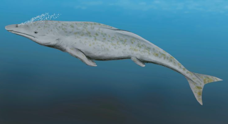 Protocetus atavus, an early whale from the middle Eocene of Egypt, pencil drawing, digital coloring